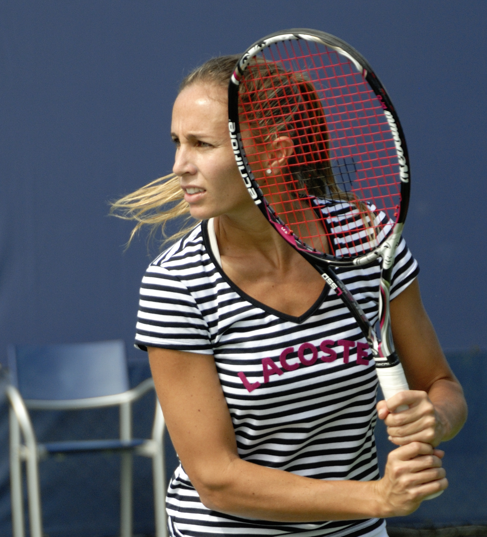 Giselo Dulko at the 2009 US Open